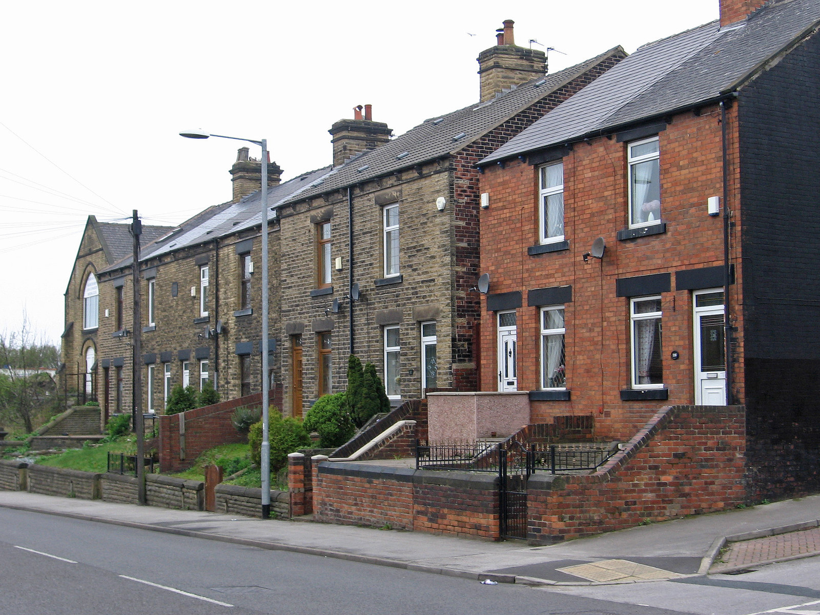 Cudworth - houses on Barnsley Road